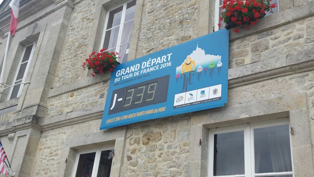 Countdown to the 2016 Tour of France start